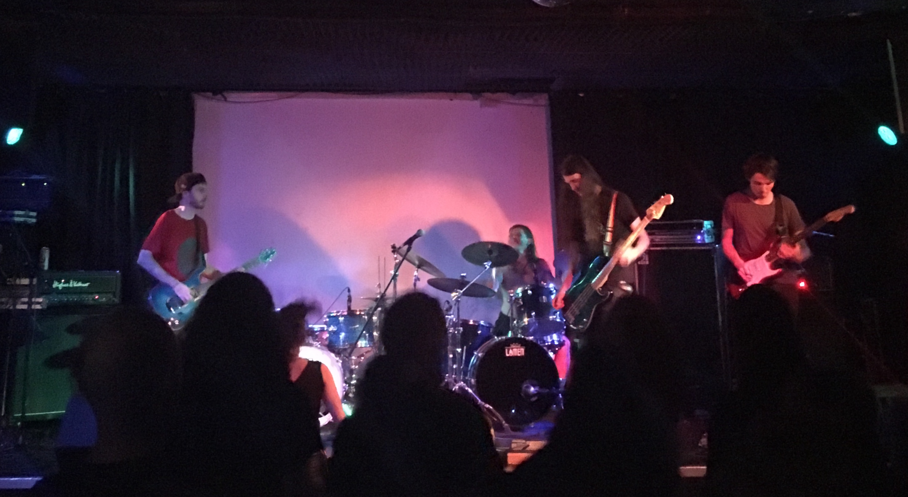 A concert of Slovene post-metal group Seul Océan in Gromka at Metelkova mesto, 17. 9. 2019